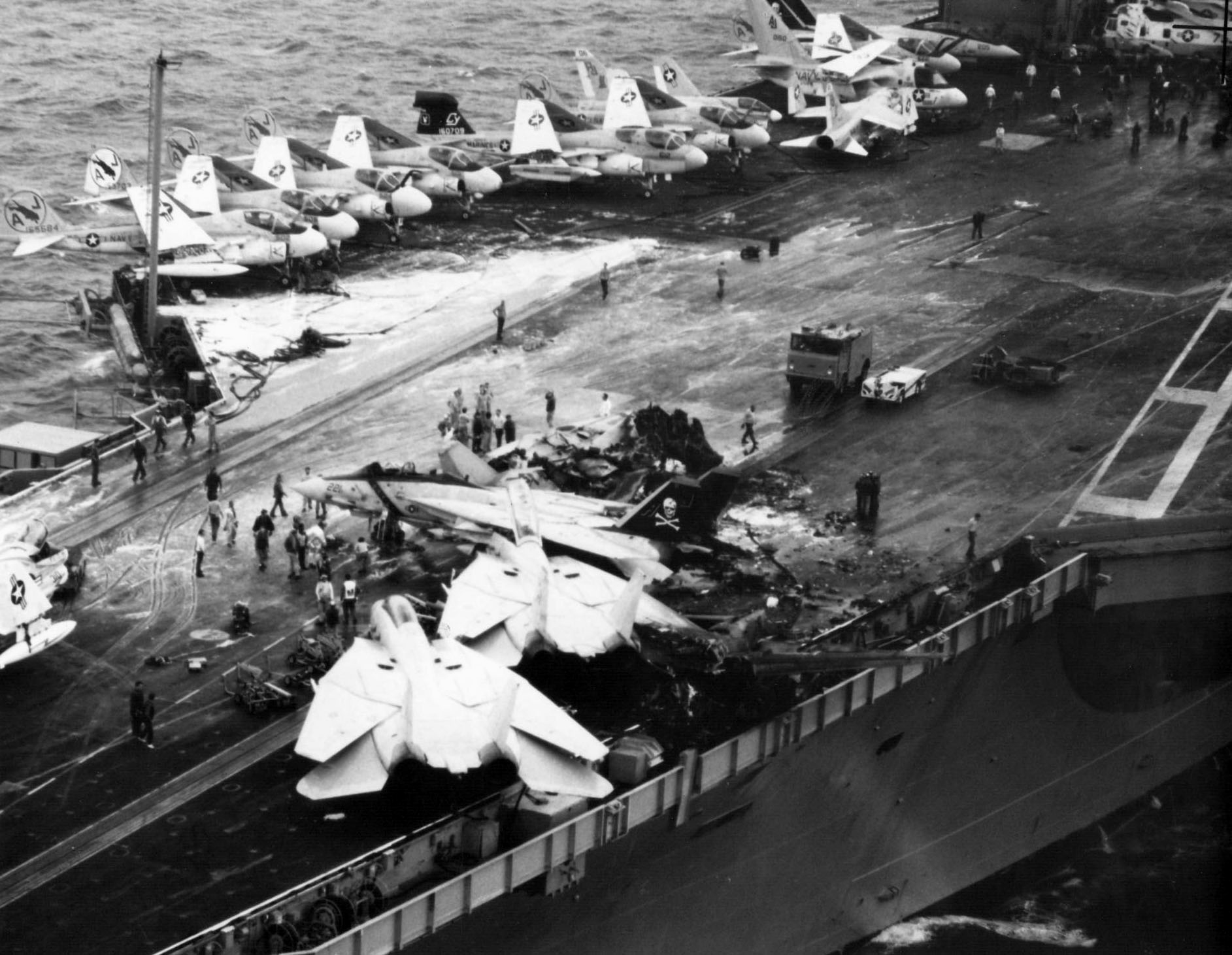 View of the flight deck of the U.S. Navy aircraft carrier after the crash of a Grumman EA-6B Prowler (BuNo 159910) from Marine Eletronic Attack Squadron VMAQ-2 Det.Y "Playboys". The aircraft was fuel-critical after a "bolter" at night and reportedly applied power during the following landing attempt when it suddenly drifted to the right, running into parked aircraft, causing ammunition to explode and starting numerous fires. 3 crewmen and 11 deck personnel were killed, 48 injured. The subsequent fire and explosions destroyed or damaged eleven other aircraft (ca. 100 million US $ damage). The crash sparked a 5-month debate between Representative Joseph Addabo (D-NY) and the U.S. Navy over whether drug use on board the carrier may have contributed to the crash. Despite being uninvolved with the operation of the aircraft or cause of the accident, the focus turned to testing conducted during autopsies which found that several members of the flight deck crew tested positive for marijuana. Although unclear how it would have affected this incident, U.S. President Ronald Reagan instituted a "Zero Tolerance" drug policy across all of the armed services, which started the mandatory drug testing of all U.S. service personnel.